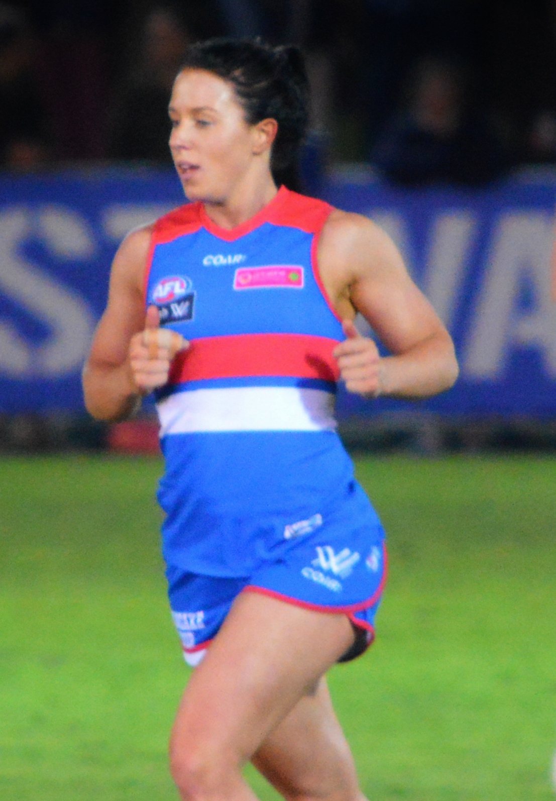 Brooke Lochland during the round 3, 2017 AFL Women's match between the Western Bulldogs and Melbourne.